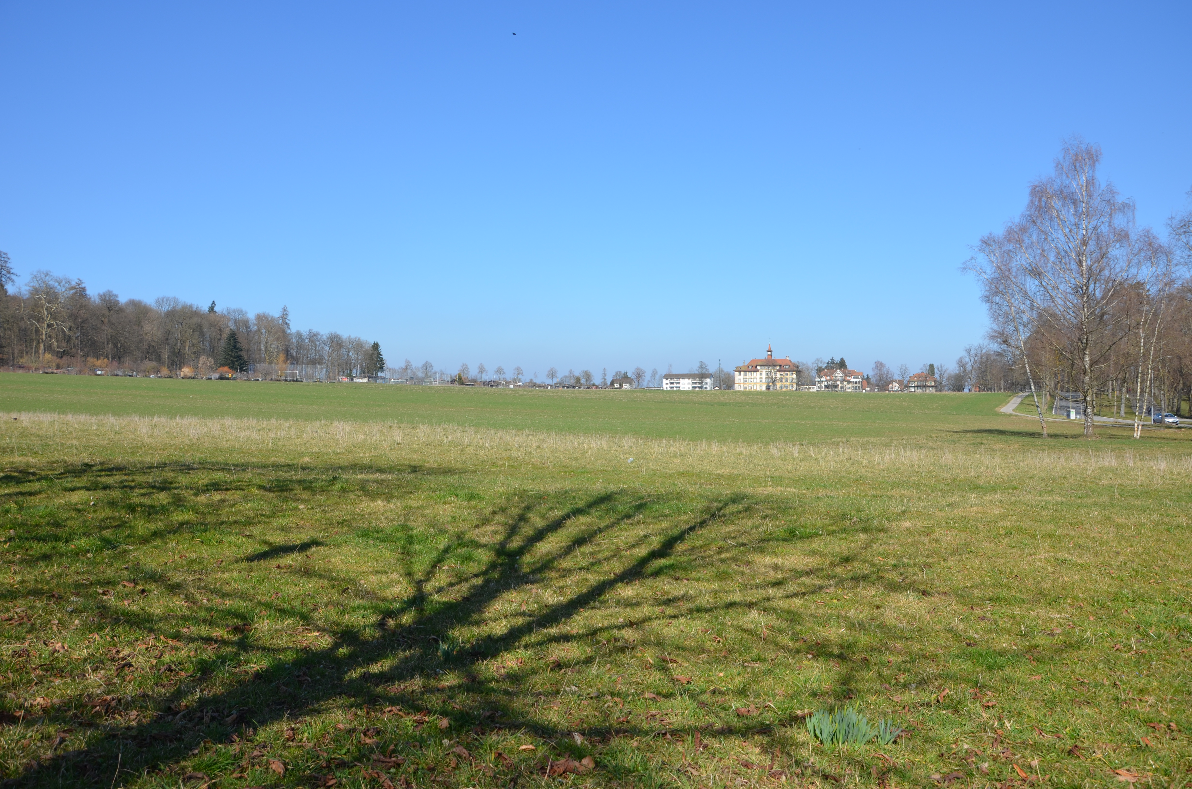 View north over Viererfeld.